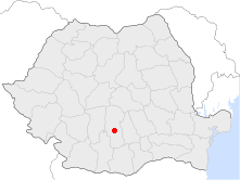 Location of Pitești in Romania.